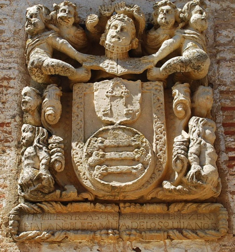 Coat of arms of Quijano family. Polvorosa de Valdavia (Palencia, Castile-León). In the following registration can be read: "TIMBRES Y BLASONES QUE PERTENEZEN HALA NOBLE FAMILIA DE LOS QUIJANOS"